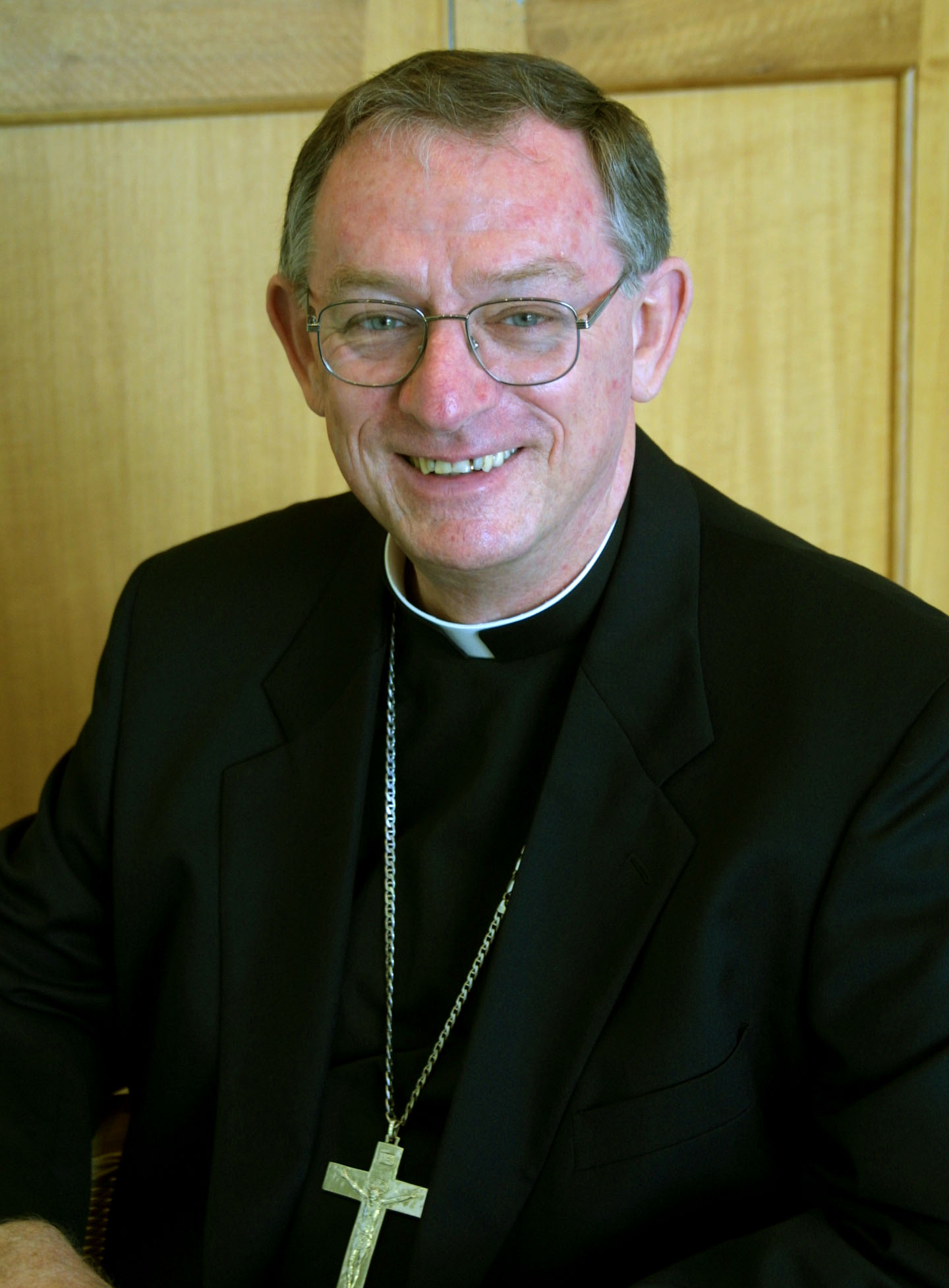 Bishop Michael Putney, Fifth Catholic Bishop of Townsville from 2004-2014.